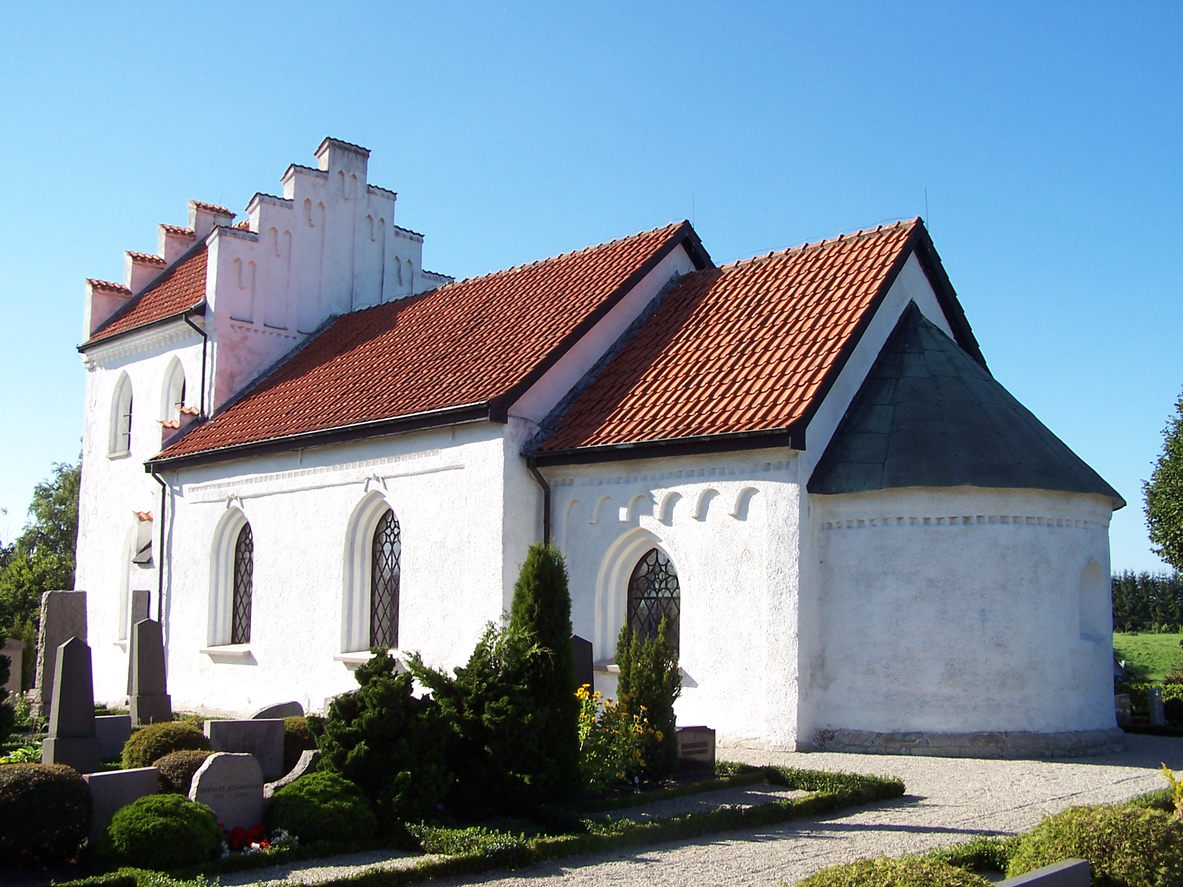 Felestads kyrka - Exterior from southeast.